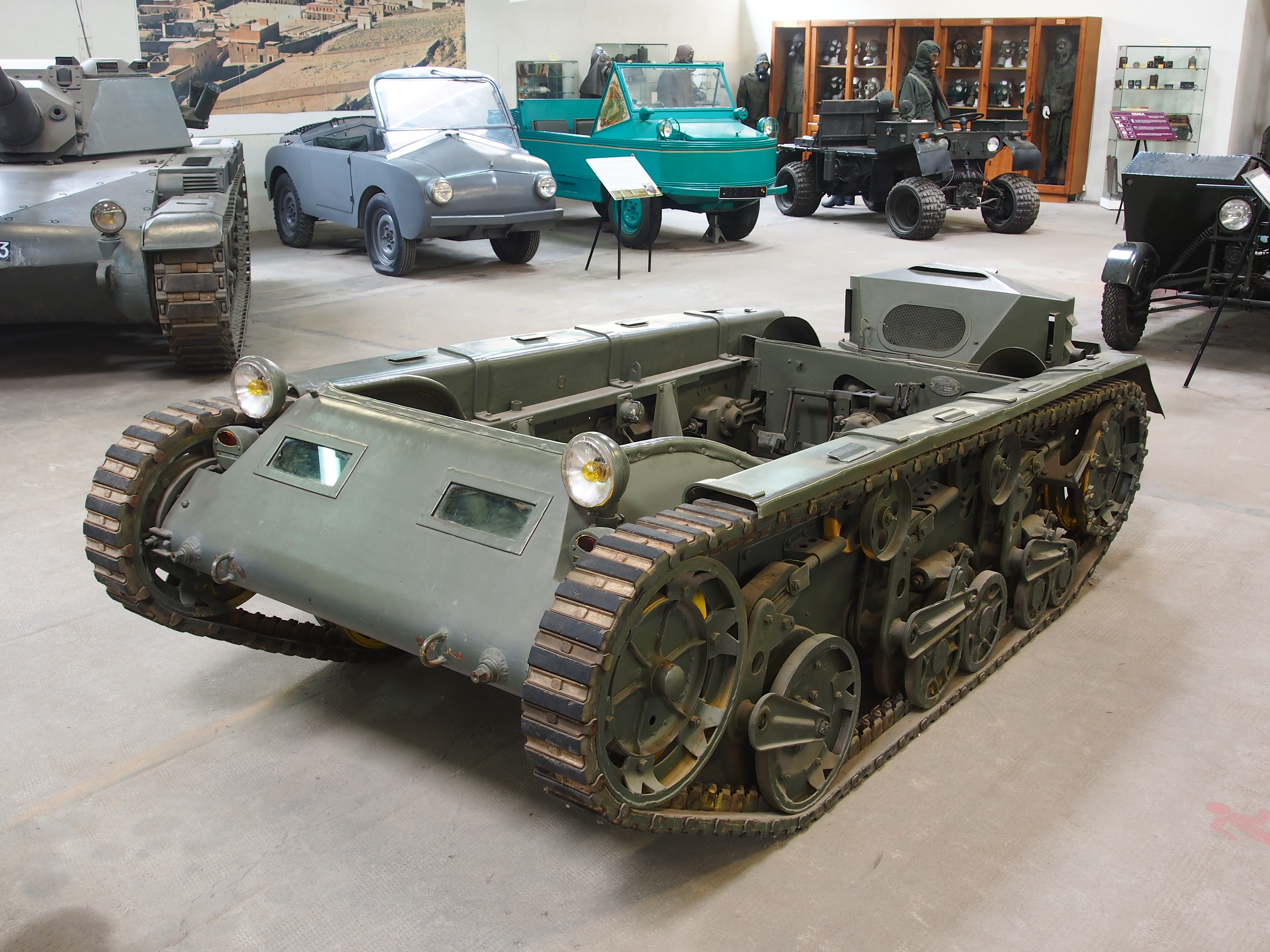 Photographed in the Musée des Blindés, France.